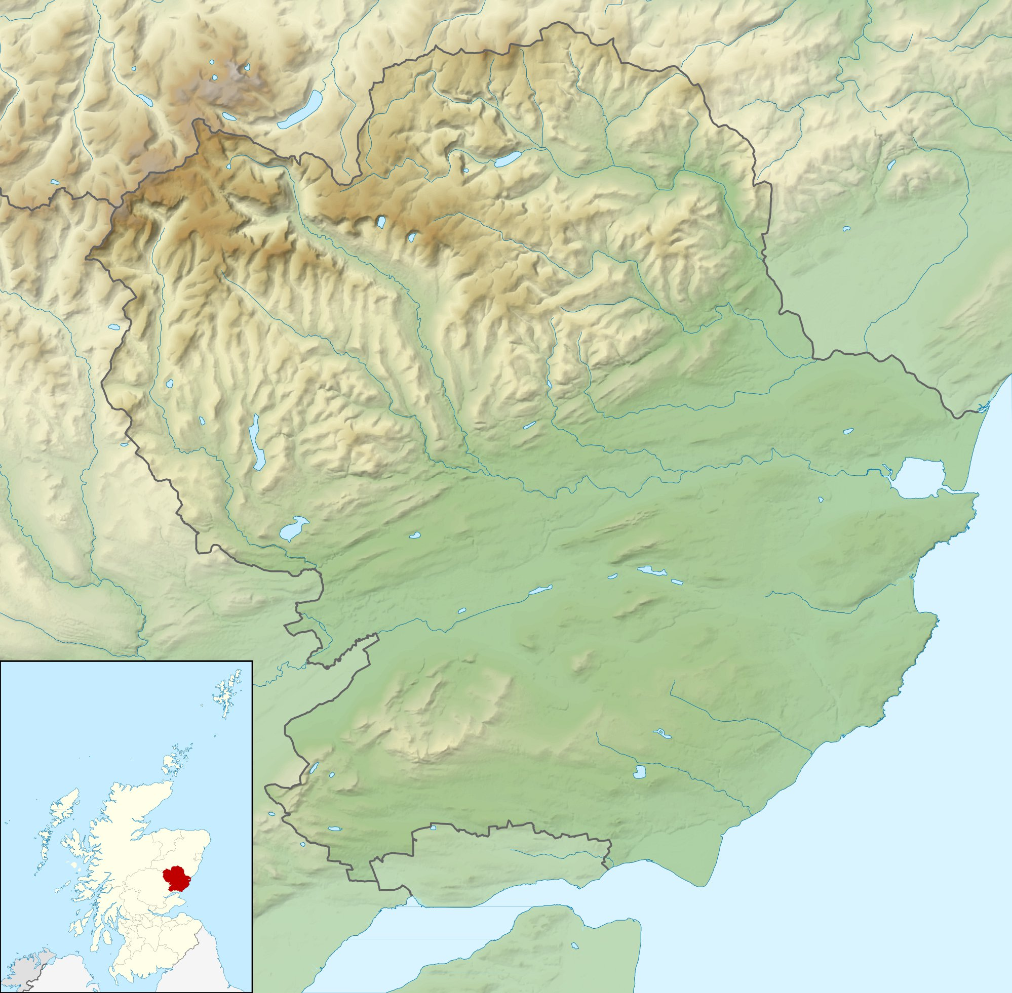 Relief map of Angus, UK. Equirectangular map projection on WGS 84 datum, with N/S stretched 180% Geographic limits: West: 3.5W East: 2.4W North: 57.0N South: 56.4N